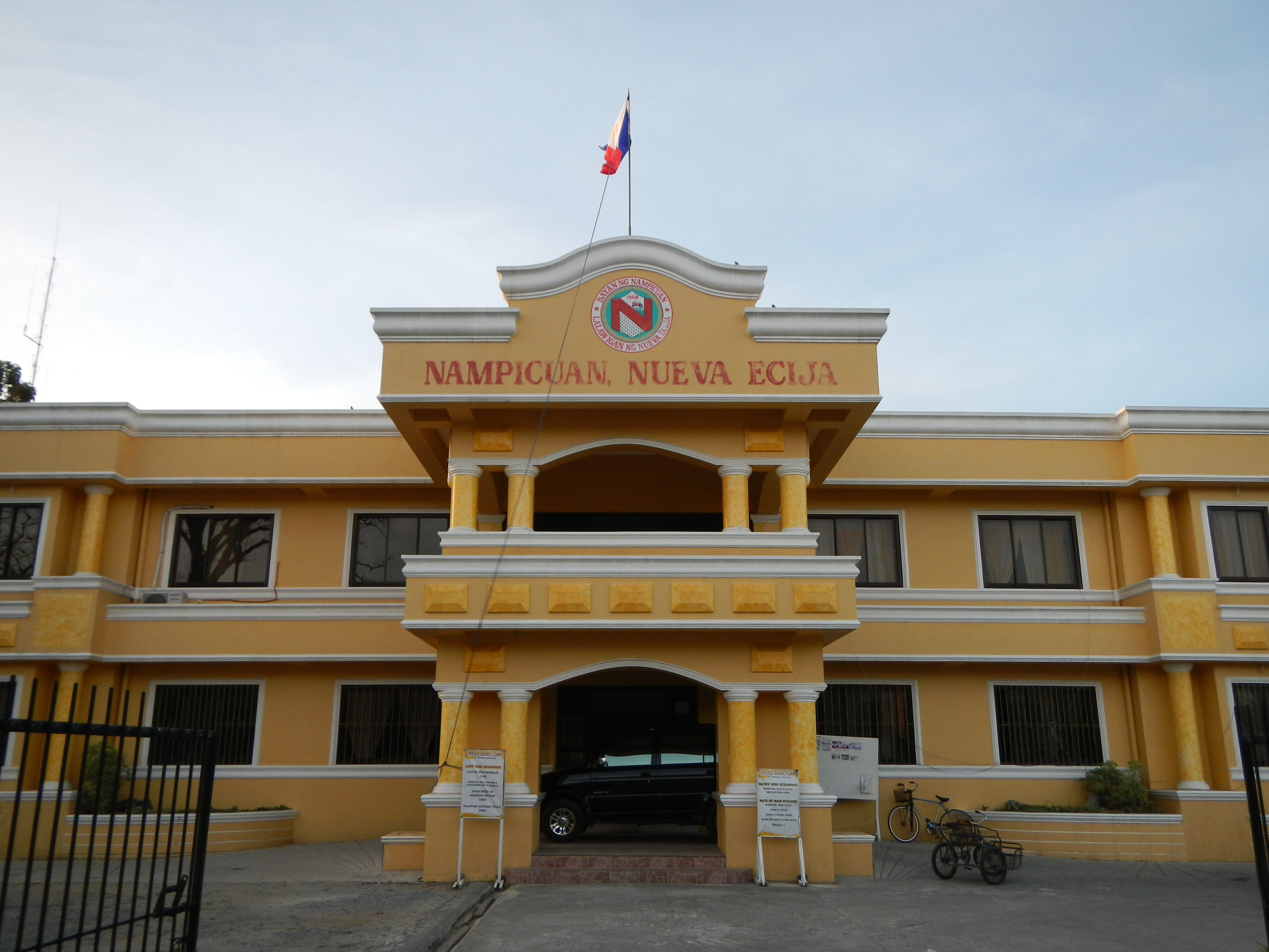 Nampicuan, Nueva Ecija[1]is a fifth class municipality in the province of Nueva Ecija, Philippines. According to the 2010 census, it has a population of 13,303 people.[2]Coordinates: 15°43'19"N 120°40'9"E Land Area: 52.60 km² ZIP Code: 3116